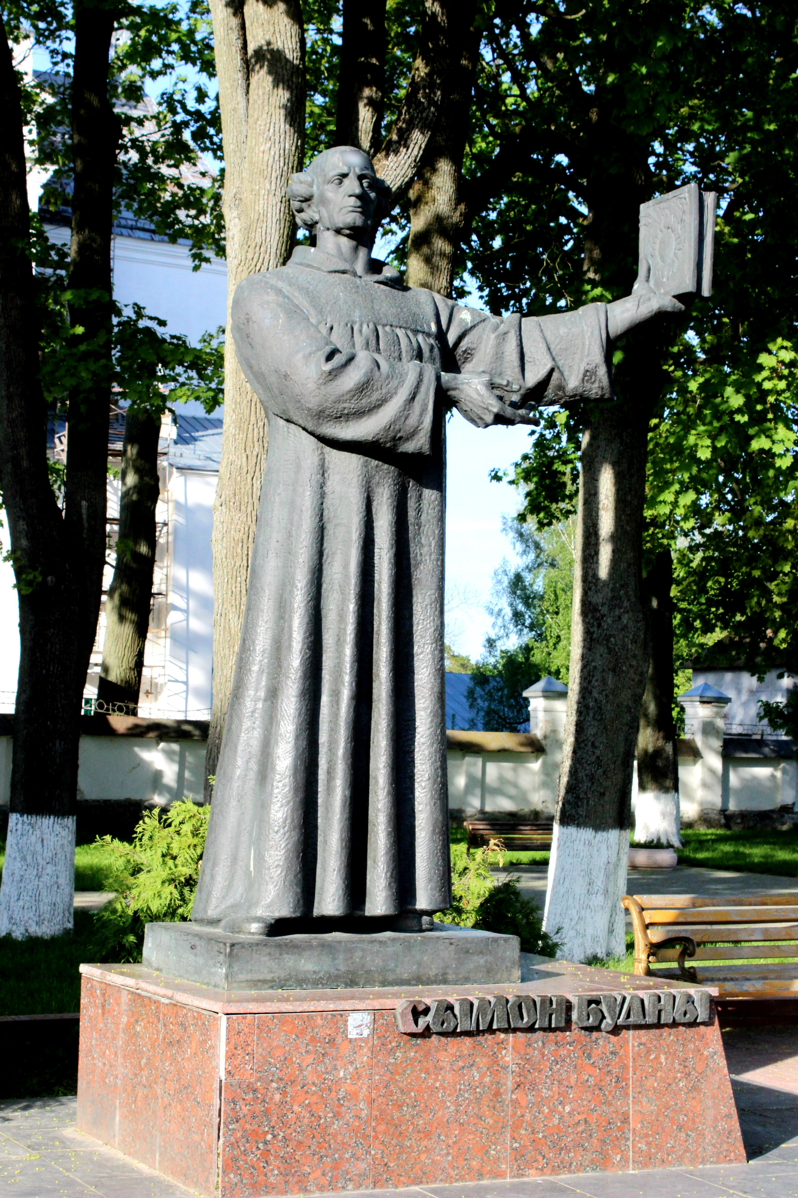 Monument of Simon Budny in Nesvizh. Sculptor Svetlana Gorbunova, 1982